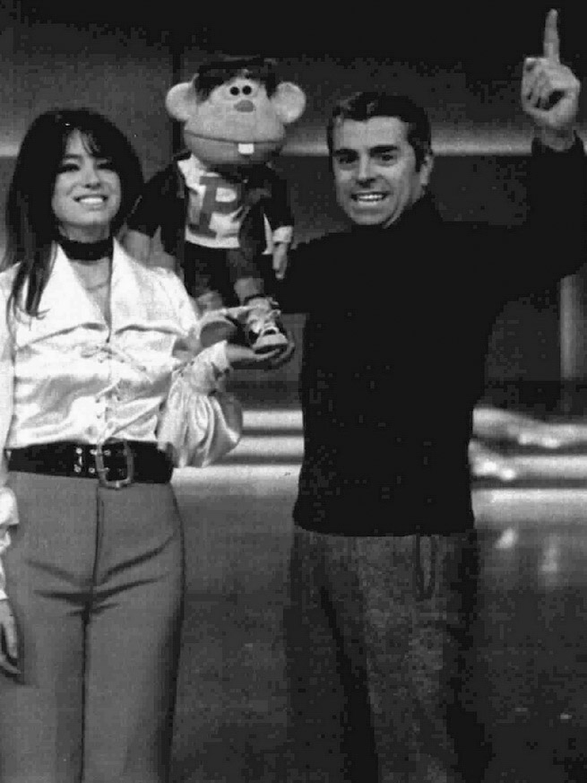 actors Raffaele Pisu and Margaret Lee with the puppet "Provolino"